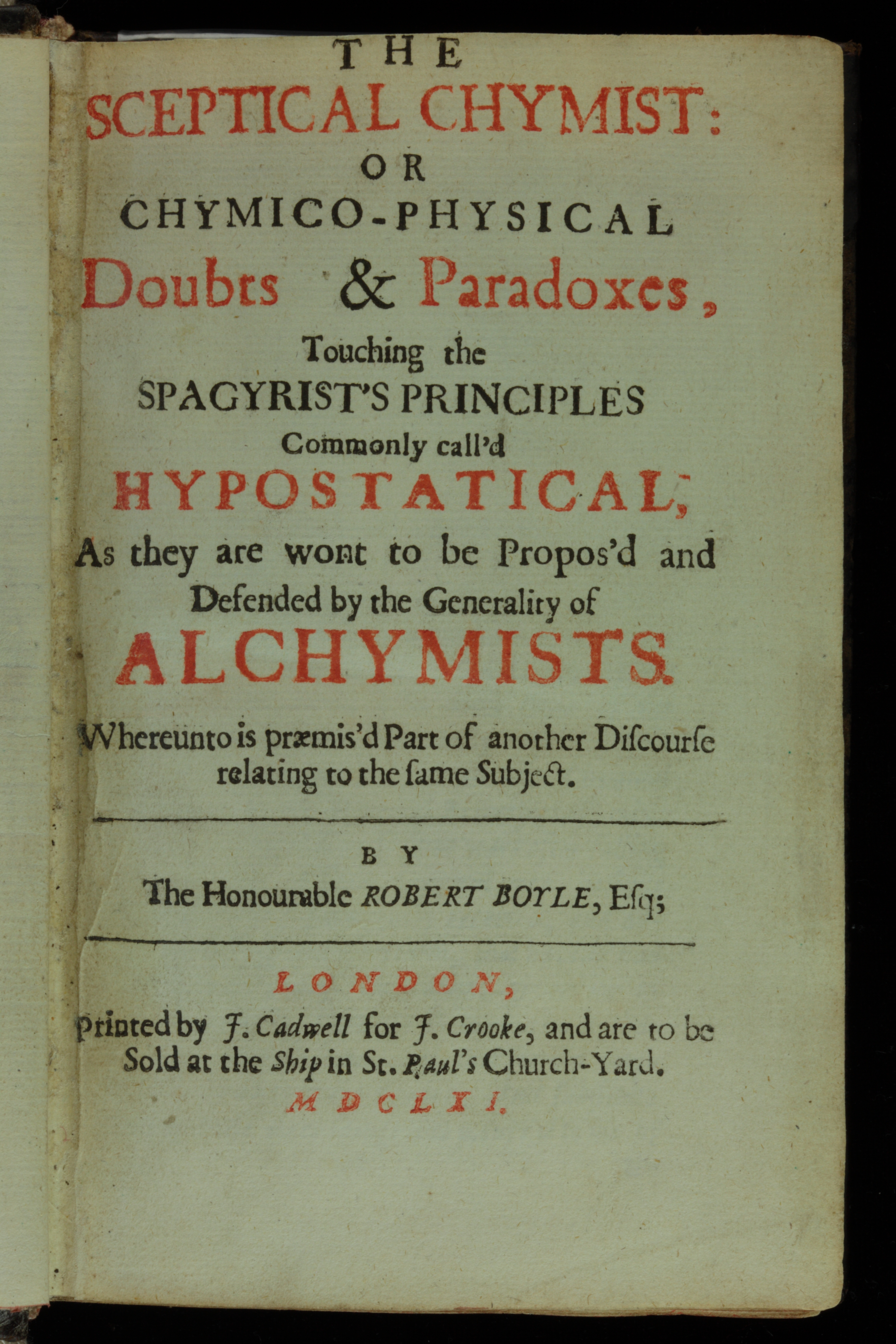 Title page from The sceptical chymist : or Chymico-physical doubts and paradoxes, touching the spagyrist's principles commonly call'd hypostatical, as they are wont to be propos'd and defended by the generality of alchymists. Whereunto is praemis'd part of another discourse relating to the same subject / by the Honourable Robert Boyle, Esq. by Robert Boyle, 1627-1691. London : Printed by J. Cadwell for J. Crooke, 1661. Robert Boyle directed his skepticism at the gaggle of common chemists who hawked medicines and deliberately obfuscated their writings. But he worked untiringly on the problem of transmutation and believed there was an alchemical elite who could instruct him. This book is in part an attempt to silence the former and prompt the latter to reveal themselves.